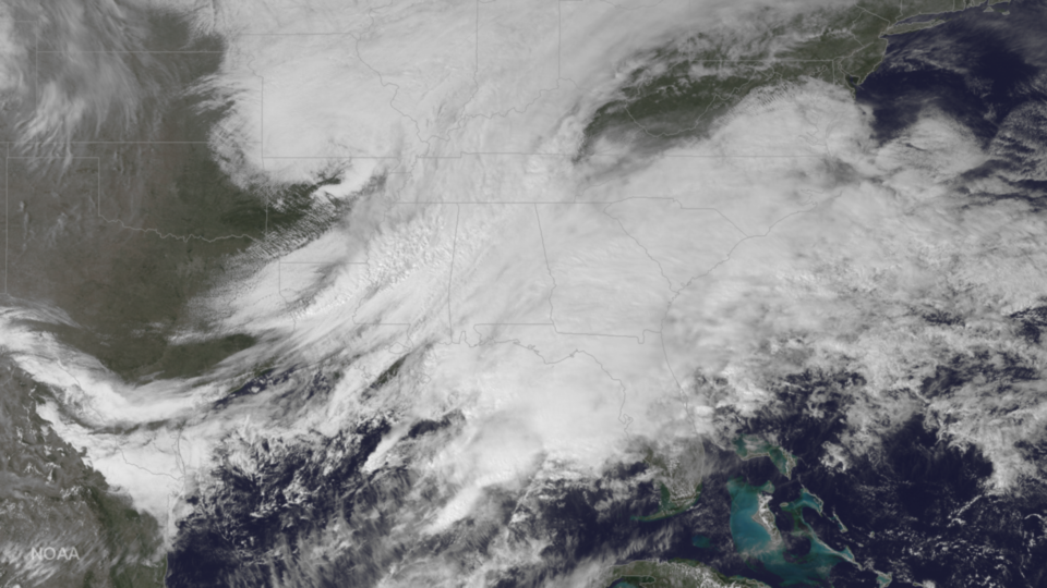 Satellite image of a developing nor'easter on March 13, 2017, that will bring extremely heavy snow to the Northeast.